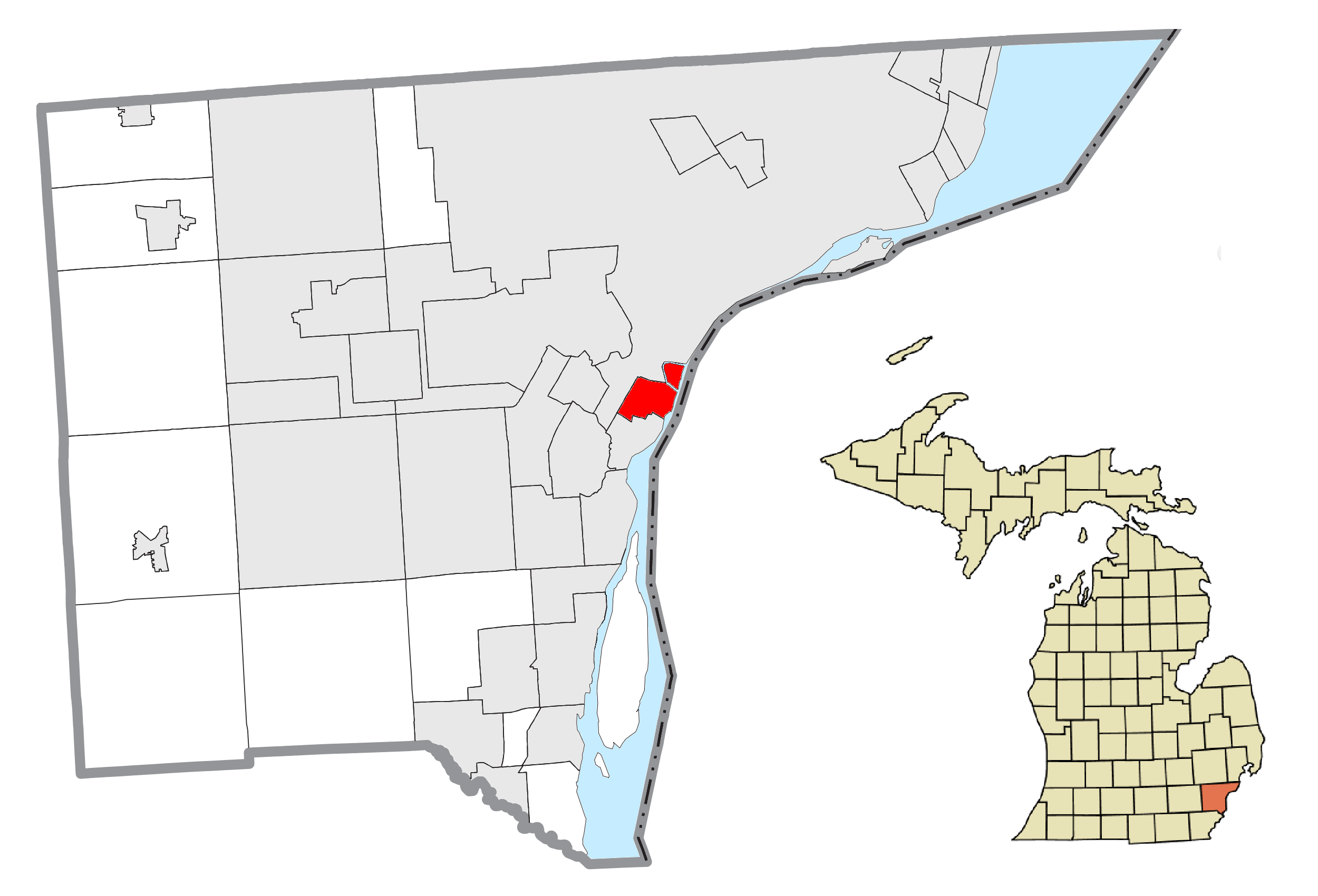 River Rouge, MI